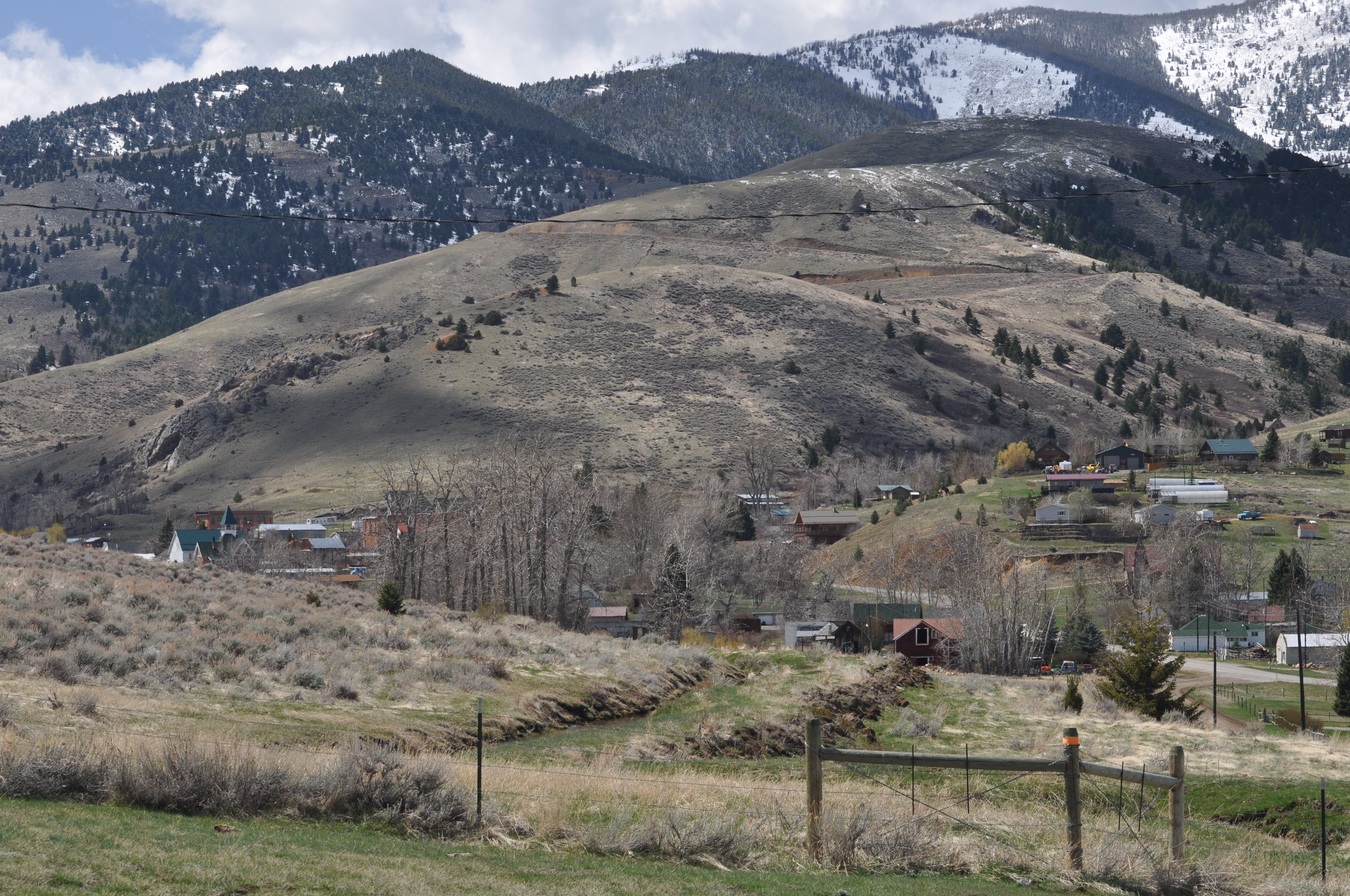 Skyline of Pony, Montana